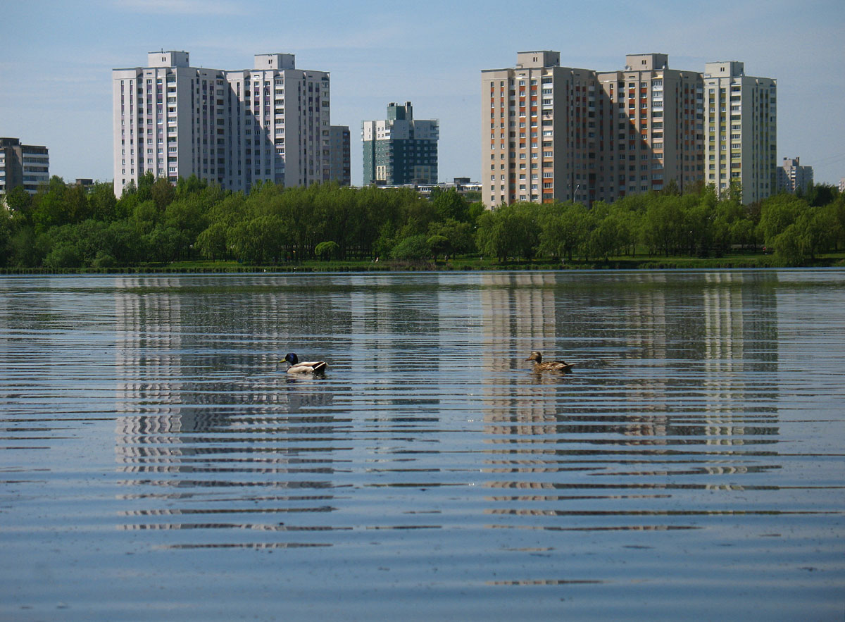 Park near lake in Čyžoŭka district